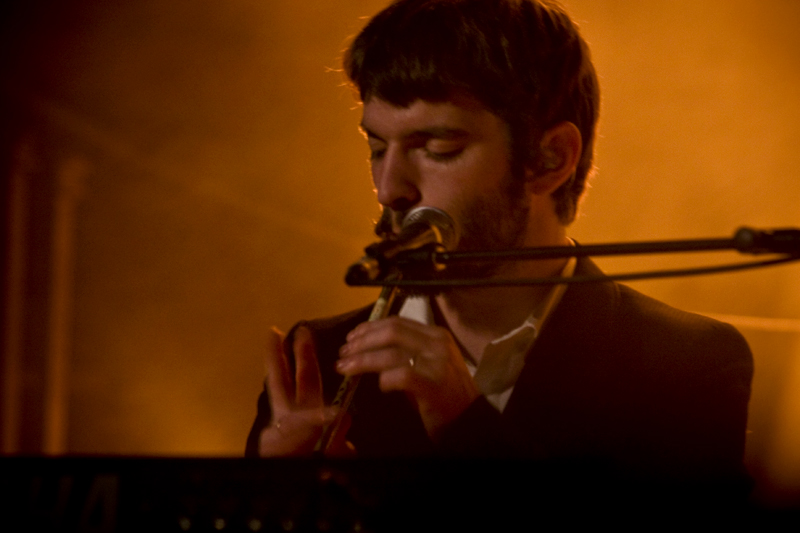 Kjartan “Kjarri” Sveinsson at Methodist Central Halls, Westminster, London, 24th June 2008